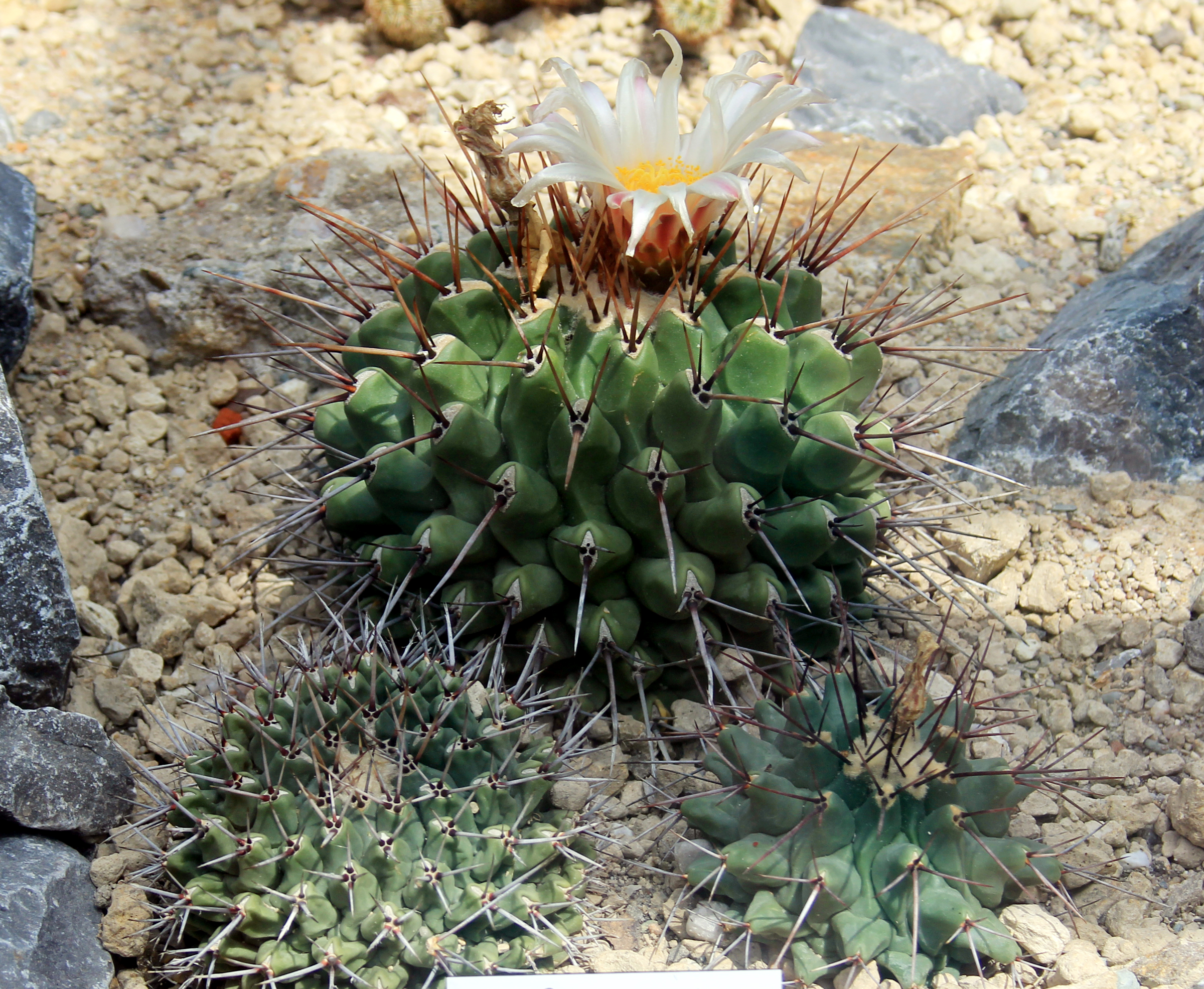 Cactus Thelocactus rinconensis, The Botanical Gardens of Charles University, Prague, Czech Republic